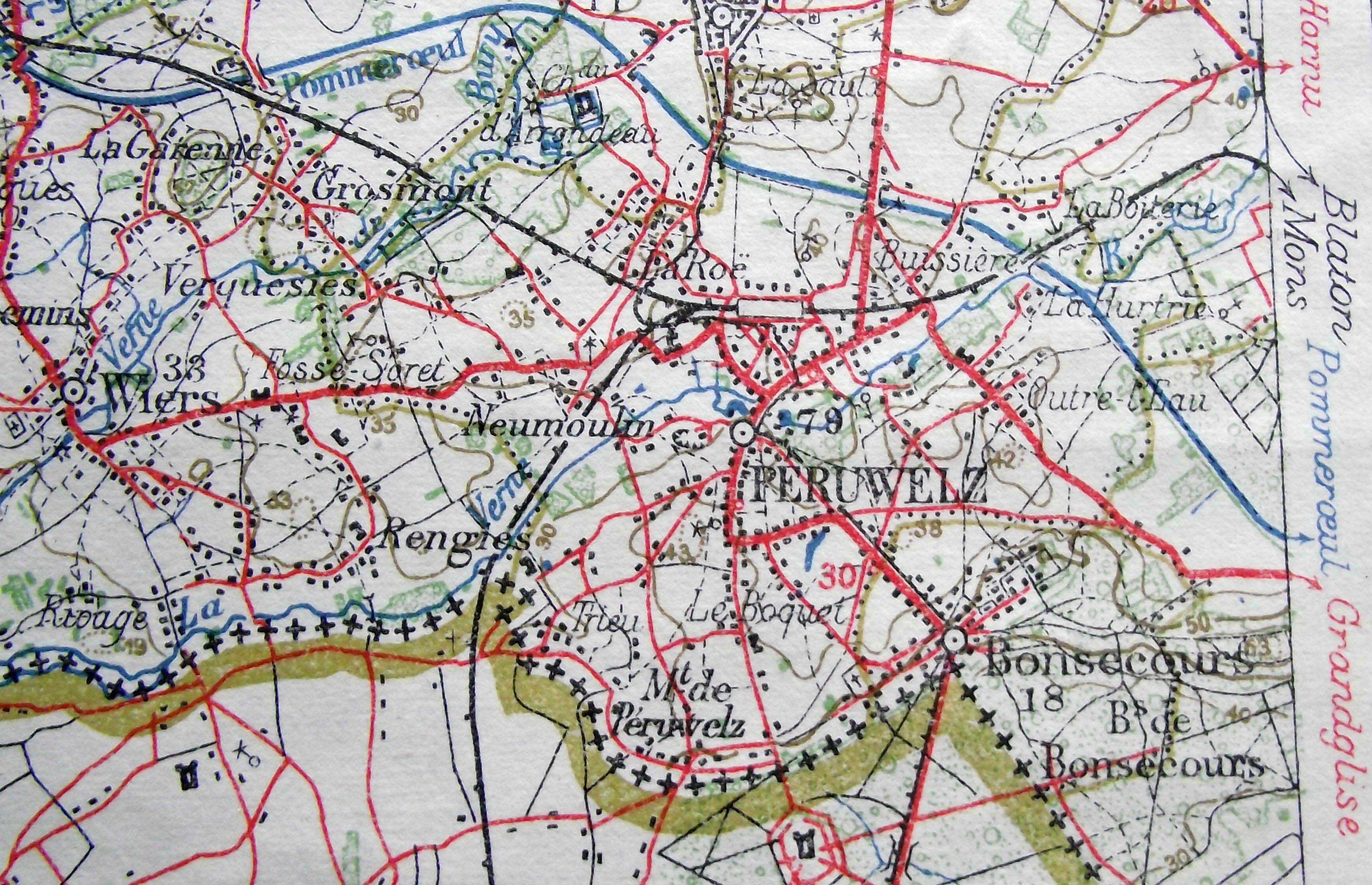 Railways and tramlines around Péruwelz in 1922. The vicinal railway terminates to the south of the railway station. From there there is the horsedrawn tramway to the border at Bonsecour. At the French border there another metergauge line to Valenciennes of the CEN (later electrified and part of the tramnetwork around Valenciennes). The horsetram was withdrawn from public service in 1914. The Germans used it during the war for injury transport. It was not rebuild after the war.